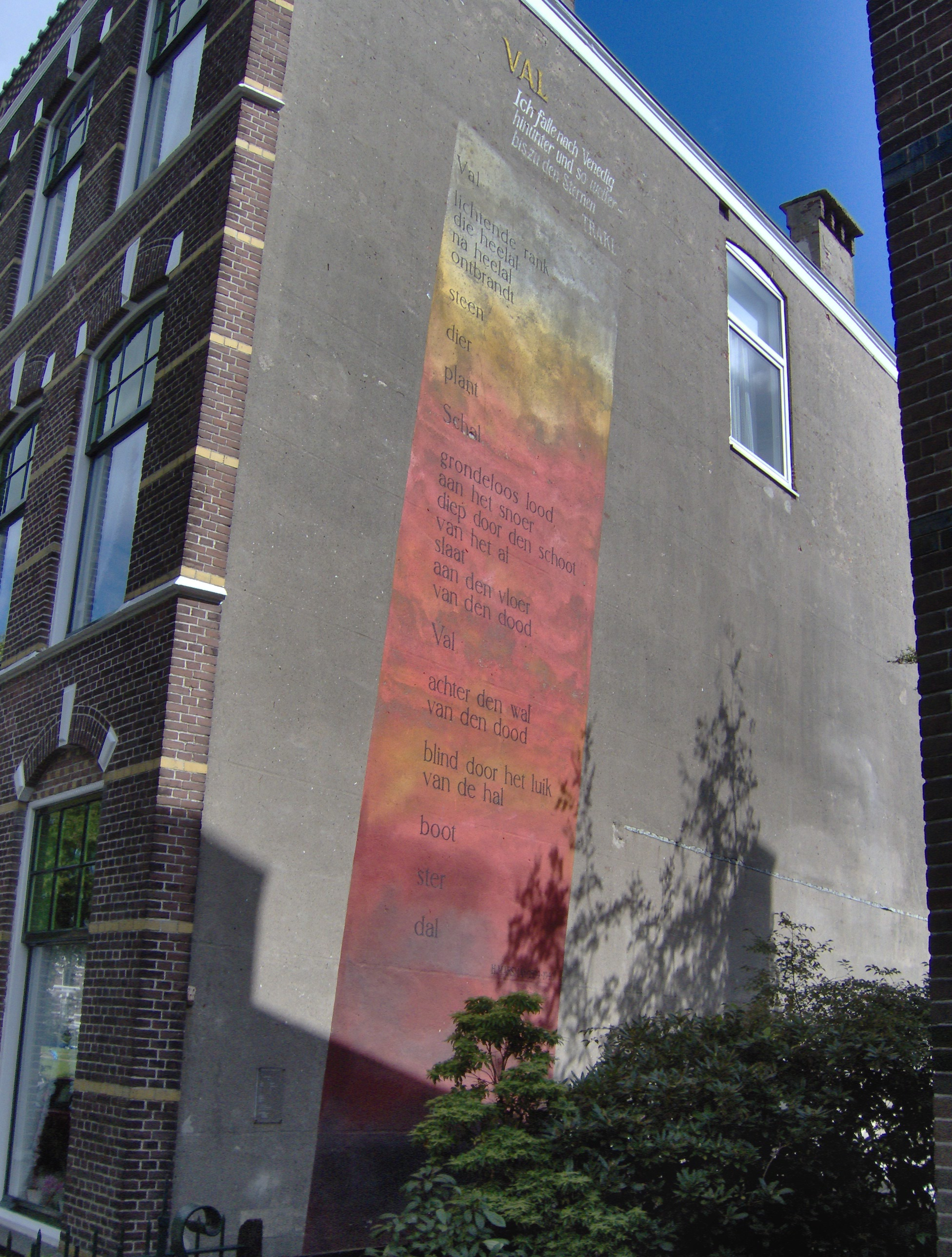 The poem Val (Fall) of the Dutch poet Hendrik Marsman on a wall of the building at the Zoeterwoudsesingel 42 in Leiden, The Netherlands. Citation of Georg Trakl: "Ich falle nach Venedig hinunter / und so weiter - bis zu den Sternen"